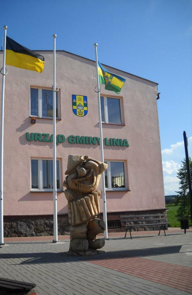 Statue of Kashubian mytical personage Rétnik located on the „Poczuj Kaszubskiego Ducha” tourist route (Linia, Poland).